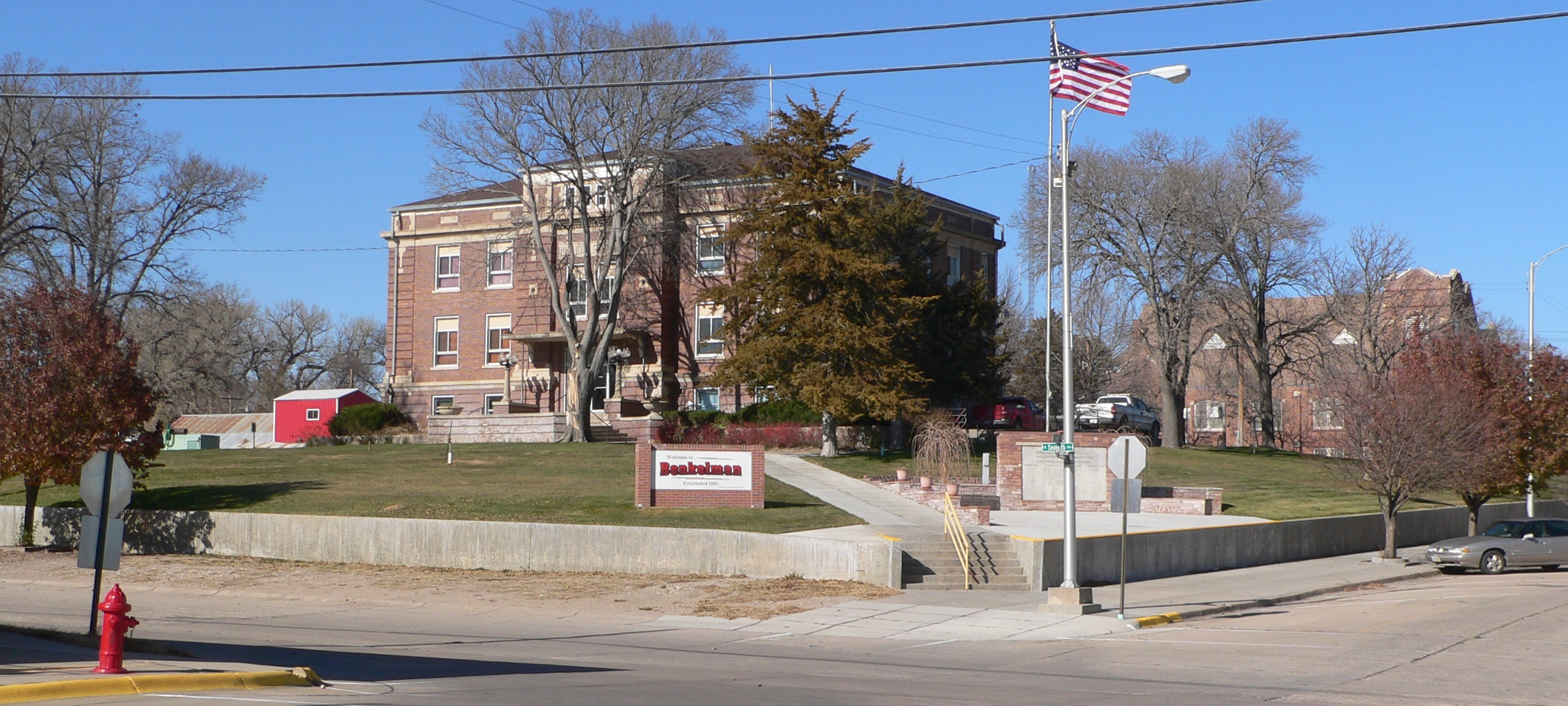 Dundy County Courthouse in Benkelman, Nebraska; seen from the southeast.